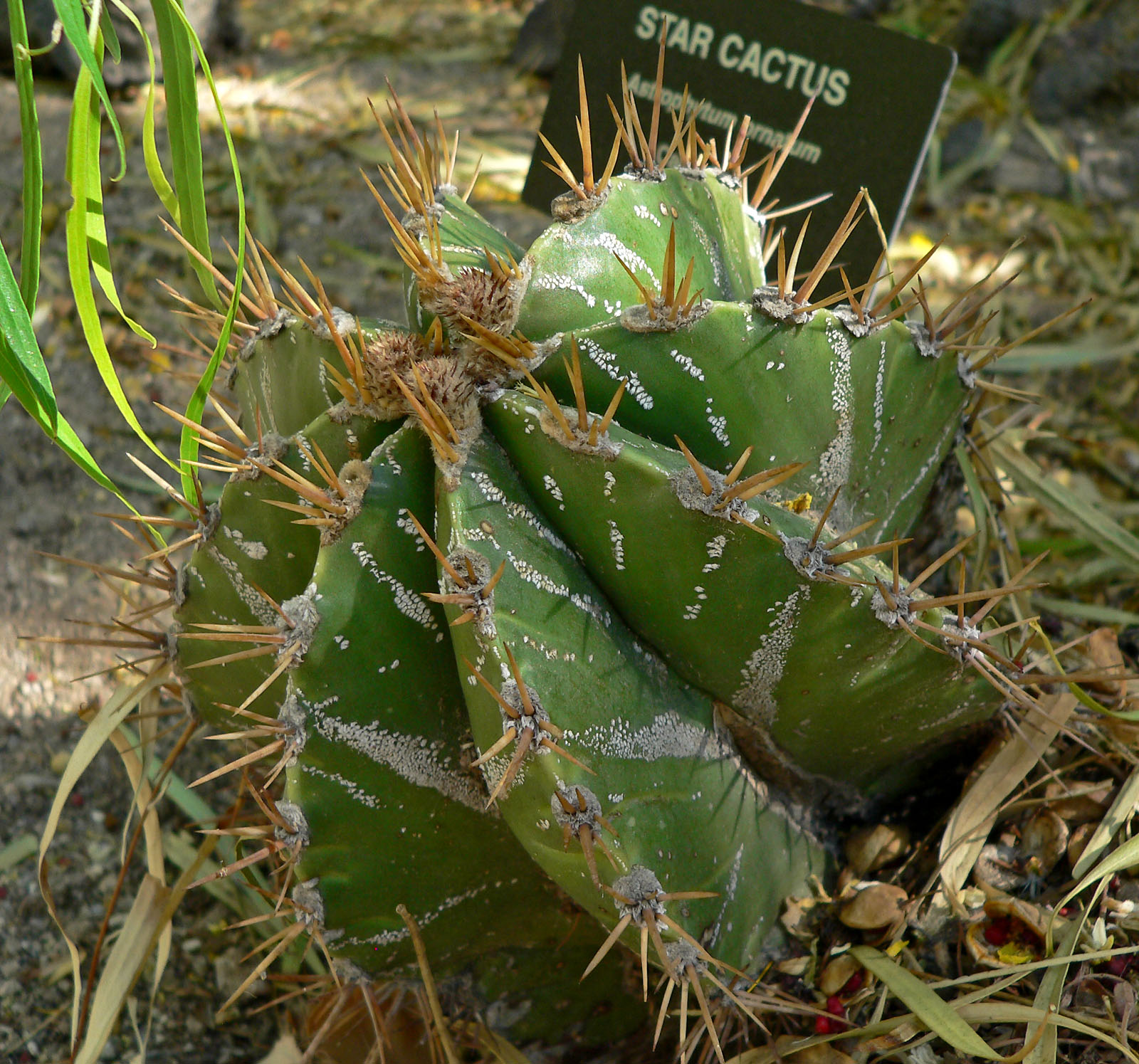 Astrophytum ornatum at the Ethel M Botanical Cactus Garden, Las Vegas, Nevada